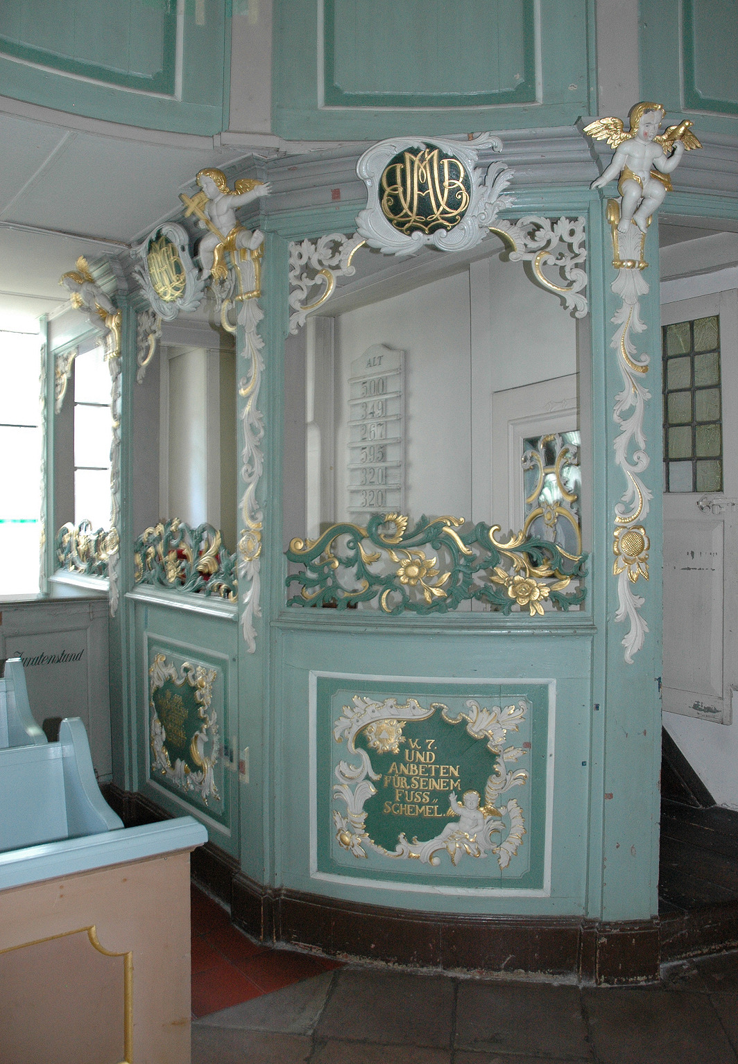 Pewage of Scheeßel's miller in the St. Lucas-Church in Scheeßel